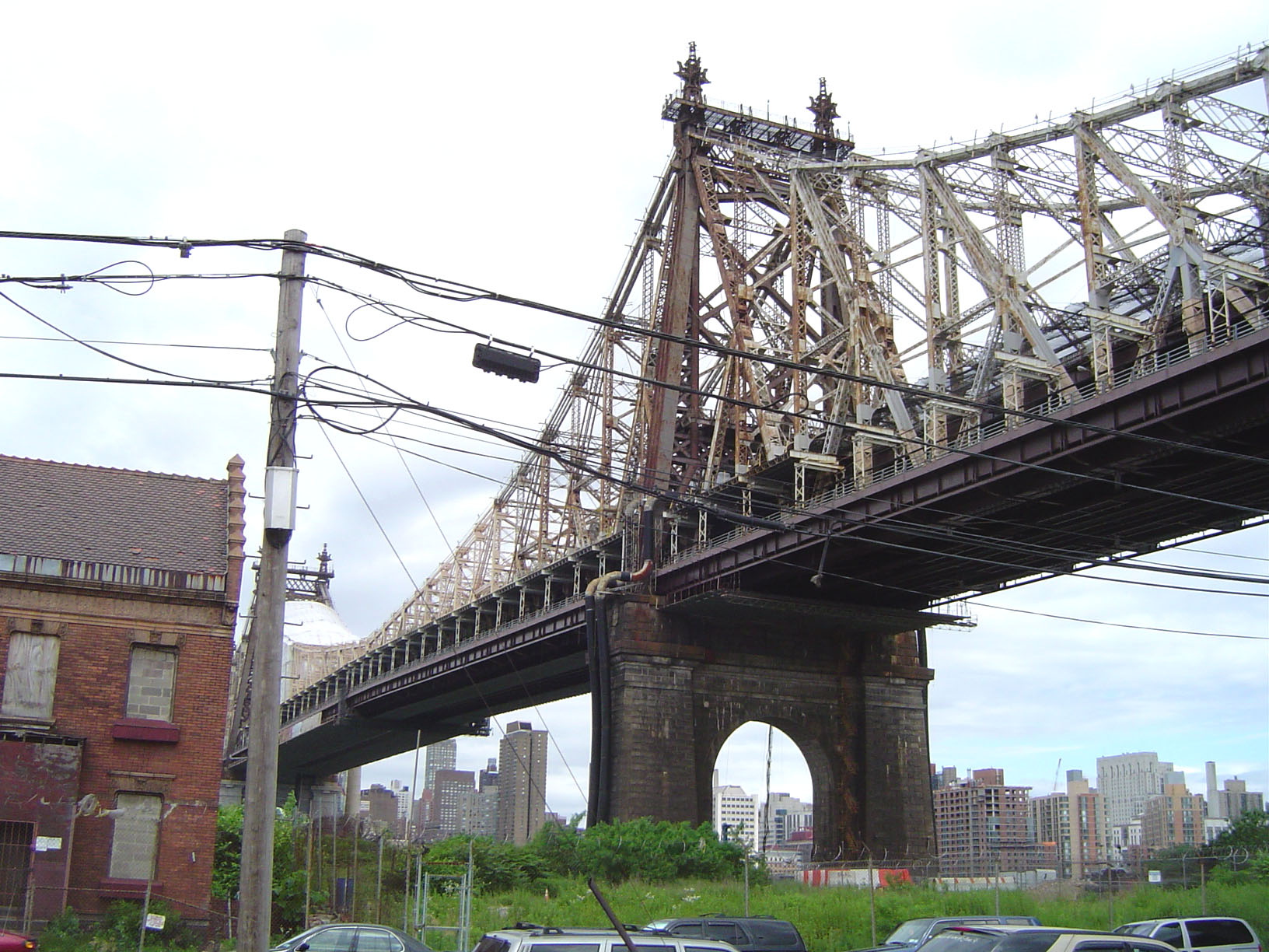 Photographed and uploaded by user:Geographer. Queensboro Bridge Close-up, Long Island City, June 19, 2005